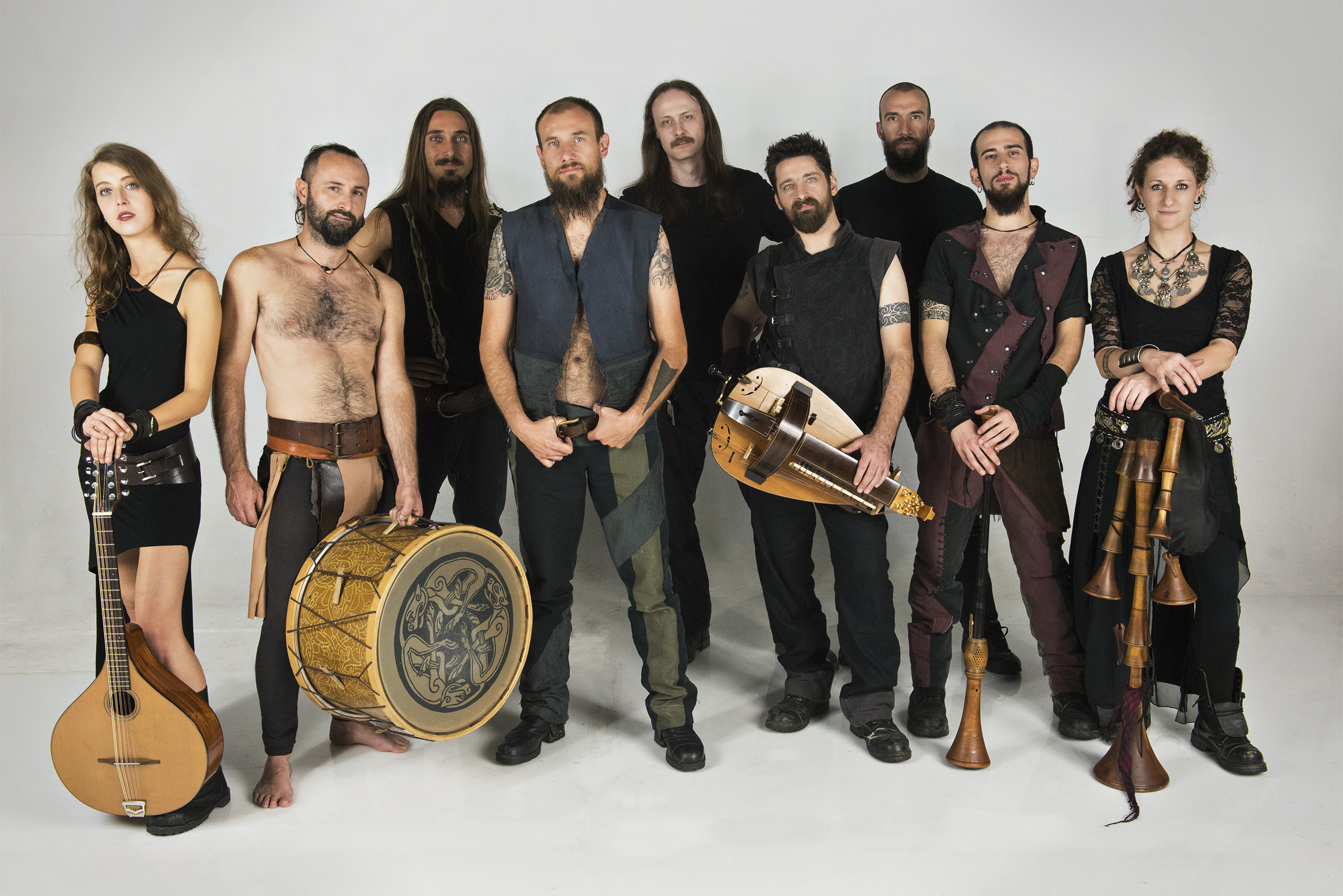 Folkstone official photo band 2015